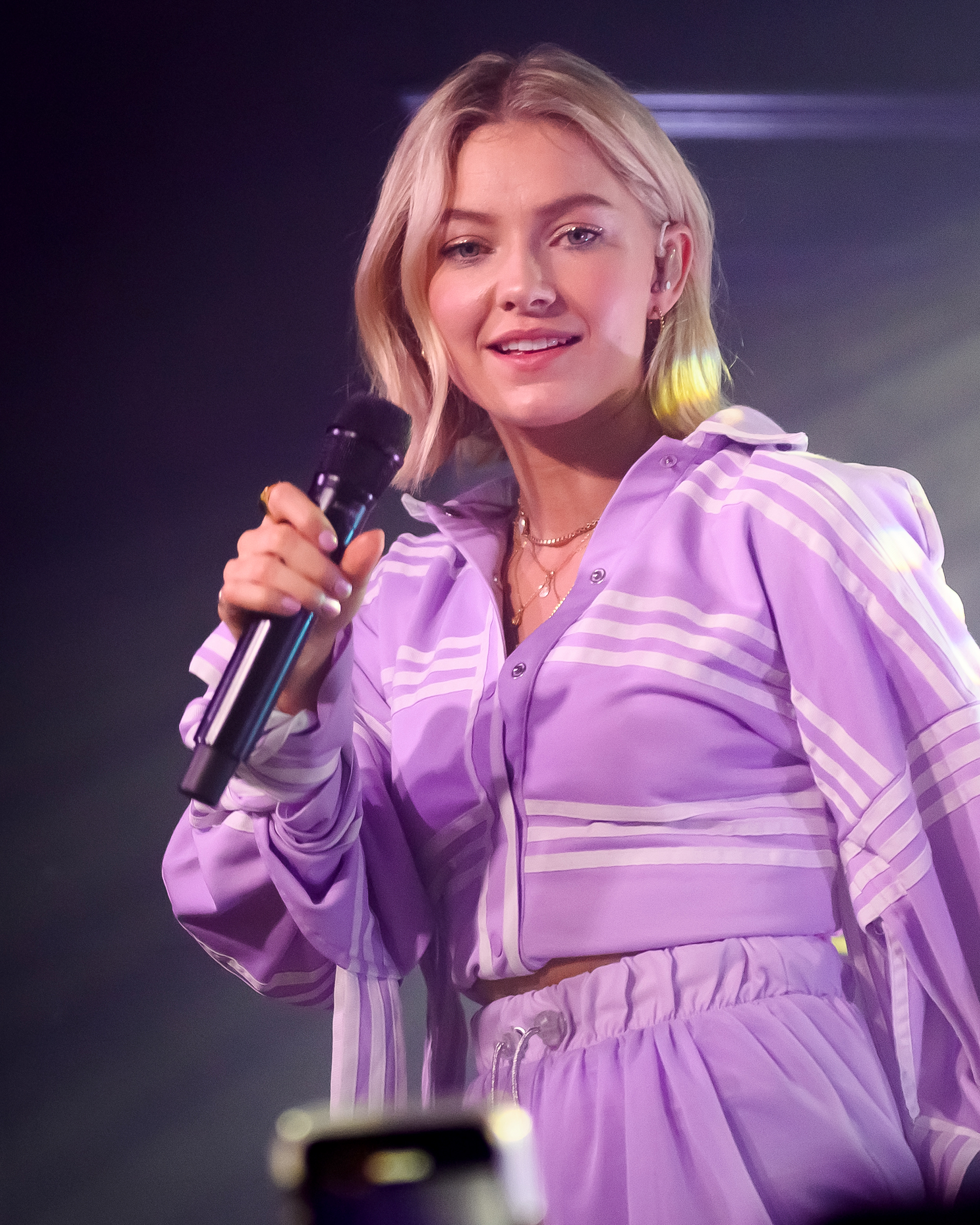 Astrid S. performing live at the Moroccan Lounge in Los Angeles, California, on Monday, February 25, 2019.